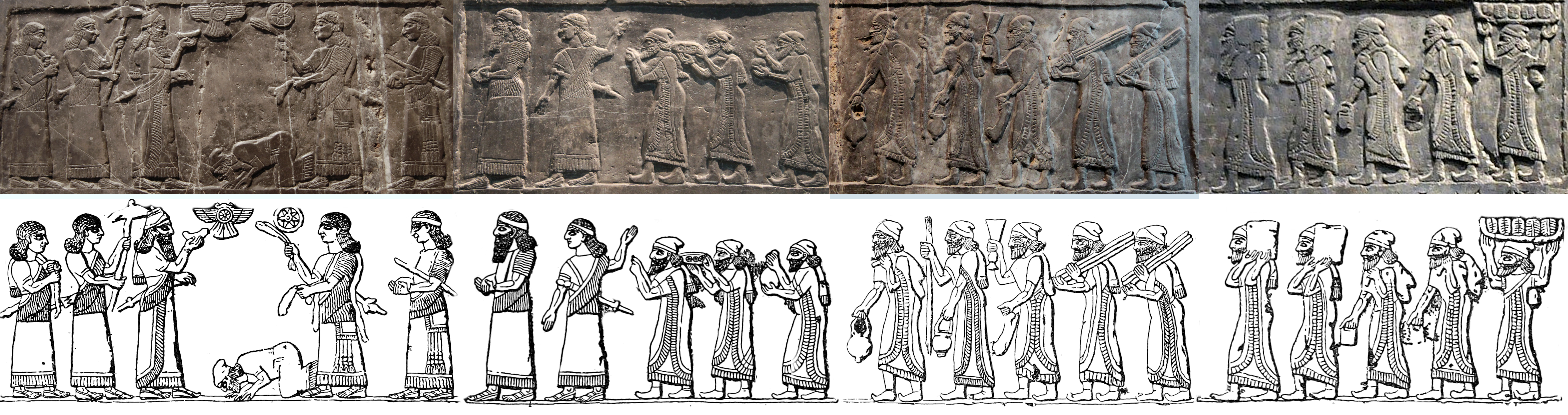 Jewish delegation to Shalmaneser III on the Black Obelisk, circa 840 BCE